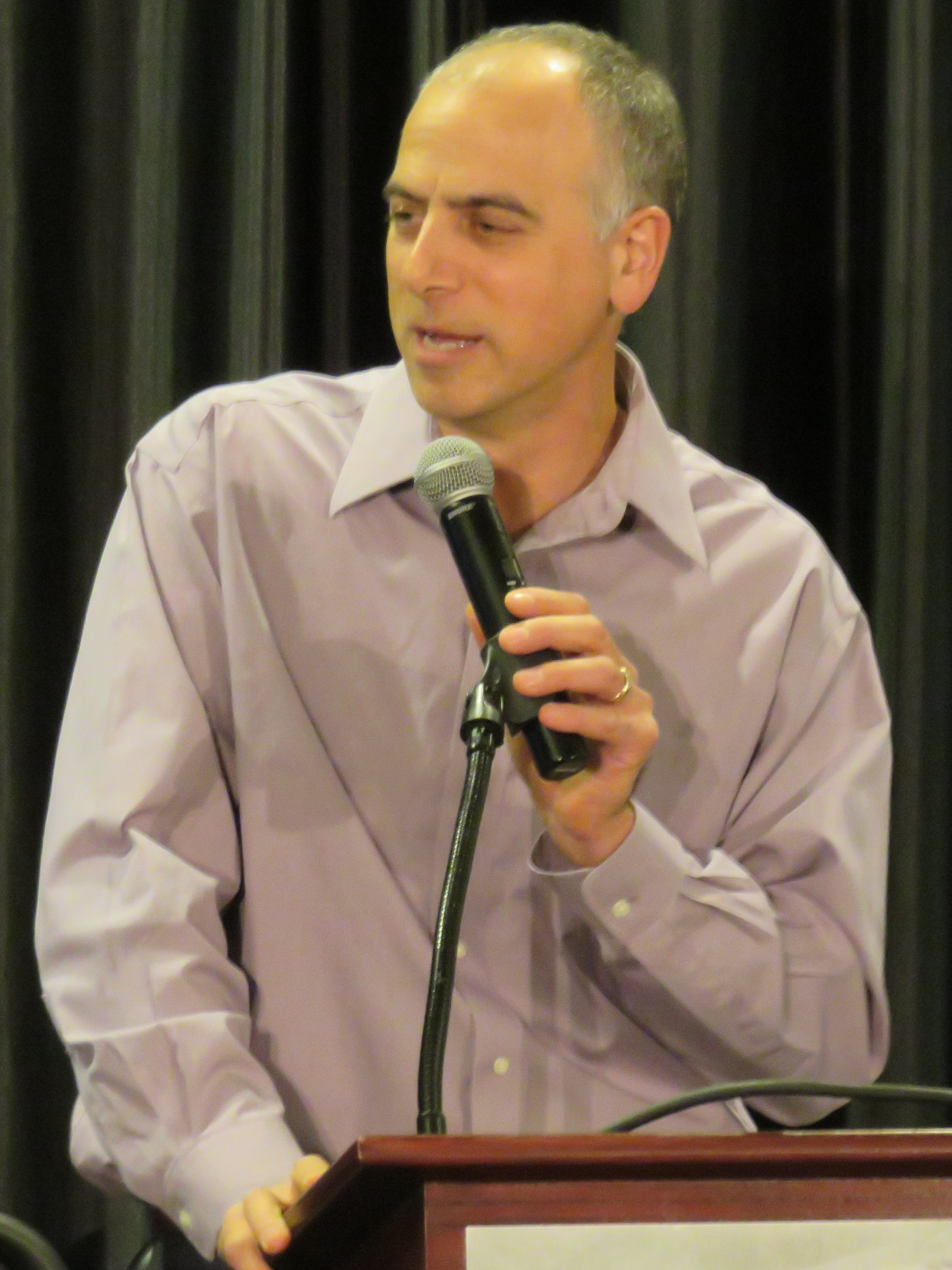 Documentary film maker and disability rights activist Dan Habib addressing TASH's 40th Anniversary Annual Conference, Portland, Oregon, 3 December 2015